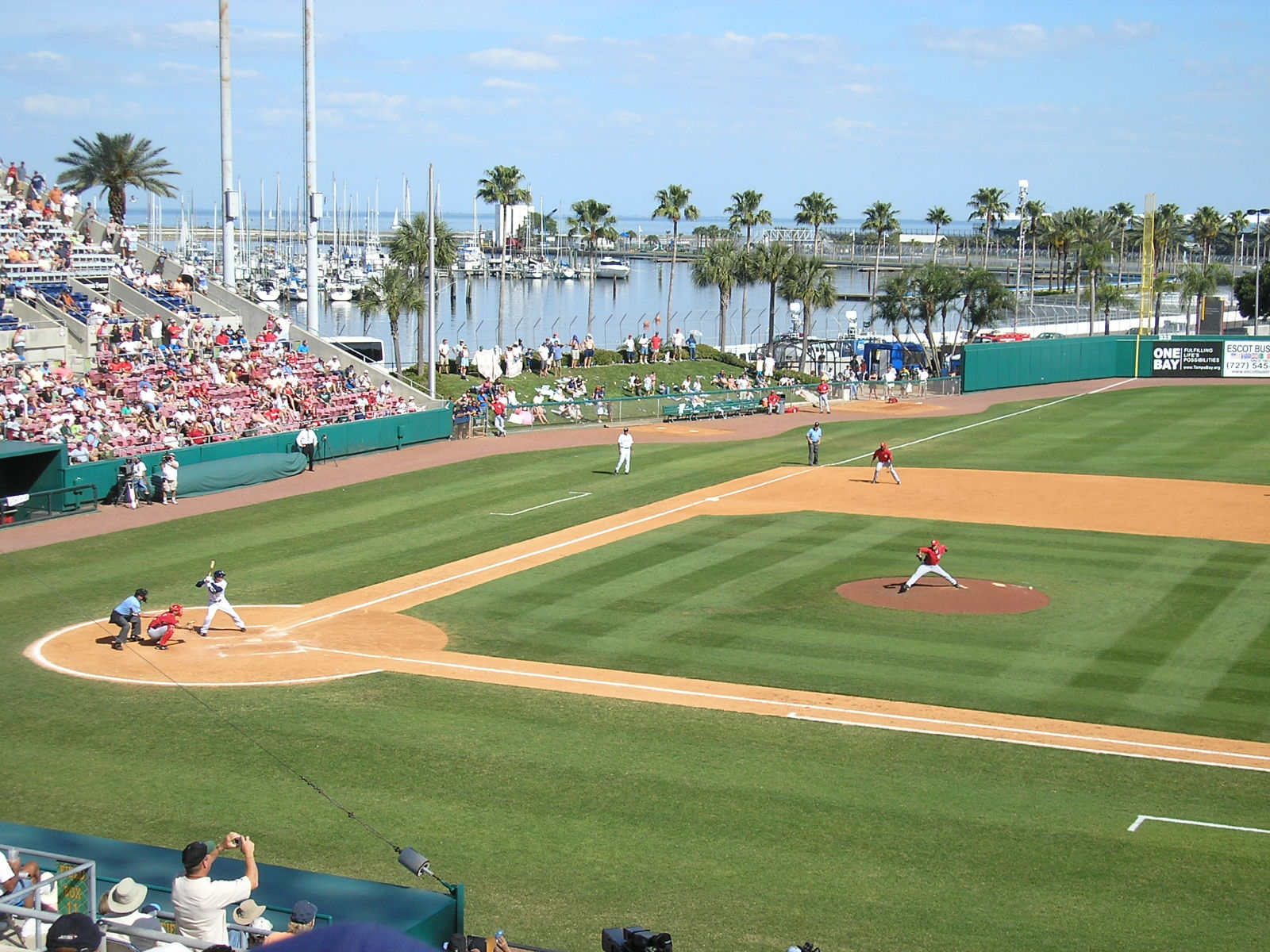 Description The last Major League pitch at Progress Energy Park at Al Lang Field Date28 March, 2008SourceOwn workAuthorZeng8r (talk) 02:20, 12 April 2008 . . Zeng8r . . 1,600×1,200 (407 KB) The last Major League pitch at Progress Energy Park at Al Lang Field